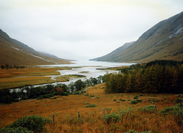 River Etive estuary, Loch Etive